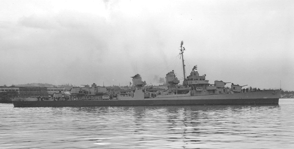 The U.S. Navy destroyer USS Wiley (DD-597) off the Puget Sound Naval Shipyard, Washington (USA), on 15 March 1945. Wiley was the last commissioned Fletcher-classs destroyer, being commissioned on 22 February 1945.